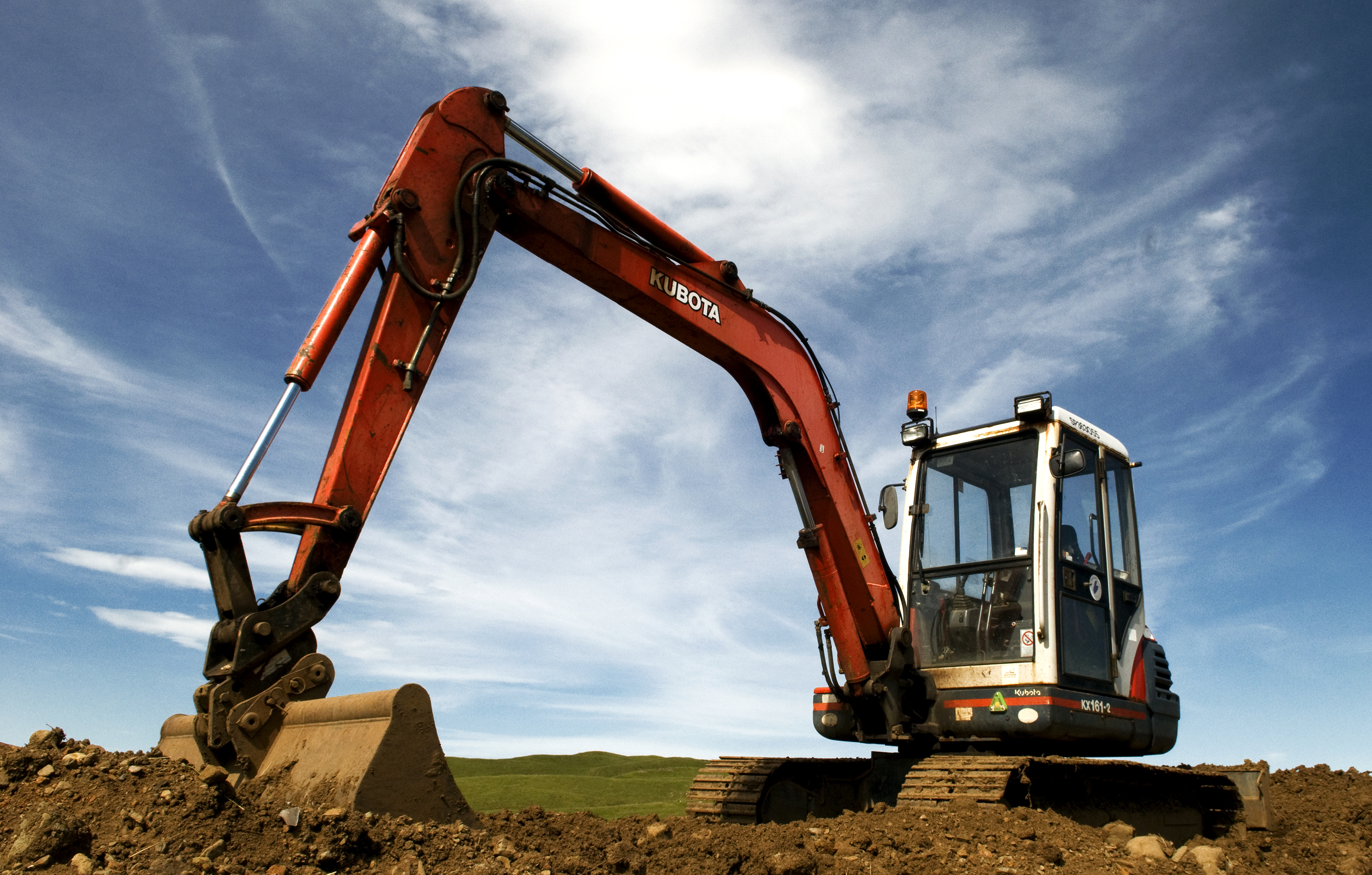 Red Monster